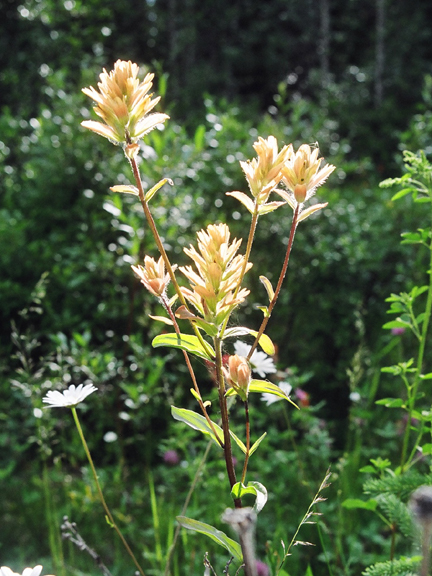 Paintbrush (castille ja spp.) is a member of the figwort family and is likely one of the best-known and most widespread wildflowers in the Canadian Rockies. It grows well in meadows from montane levels to above timberline. Most commonly orange-red to red in color, it also occurs in yellow and purple variants. Two features distinguish it from other typical wildflowers. It is the bracts of this wildflower and not the petals (which are green) which bear the color. As well, paintbrush is a parasitic plant, enmeshing its roots with those of other plants and stealing their nutrients. Ø2004 D. Windrim Captioned As {}